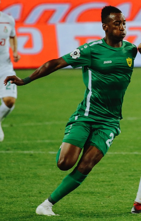 Gaël Ondoua with FC Anzhi Makhachkala in a game against FC Lokomotiv Moscow.